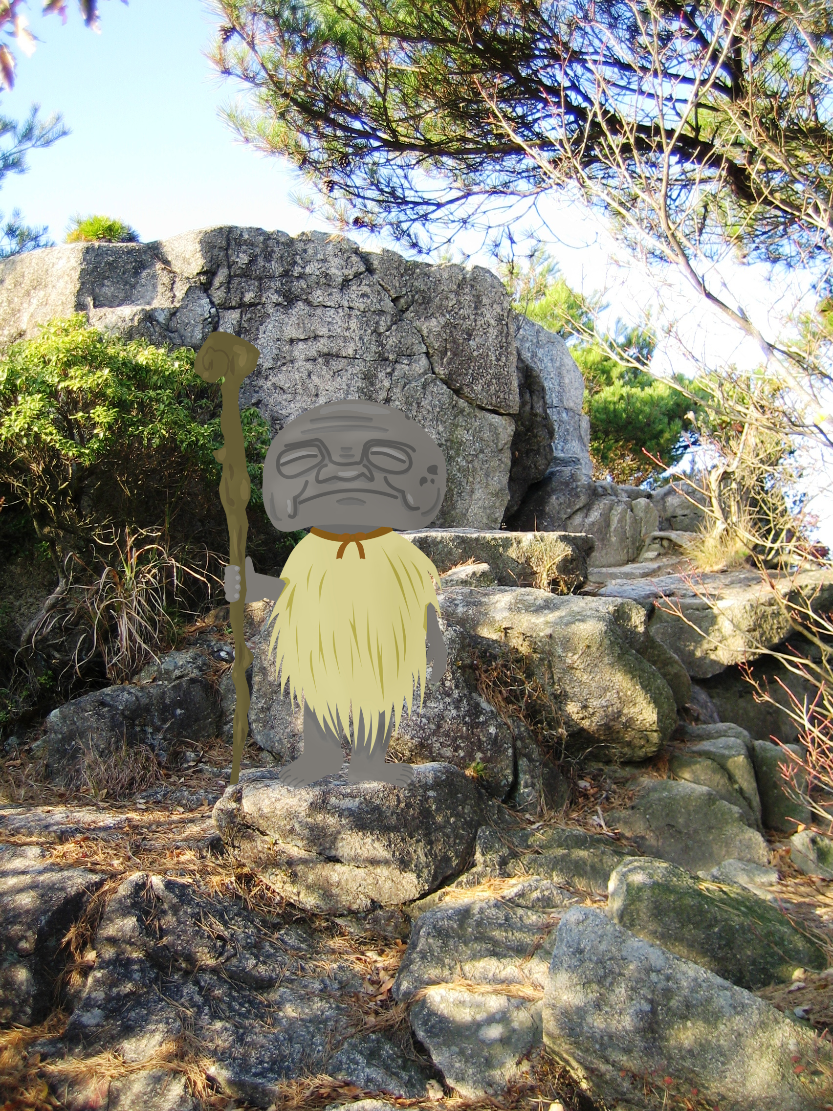 abura sumashi, a yokai (spirit) of the japanese folklore.